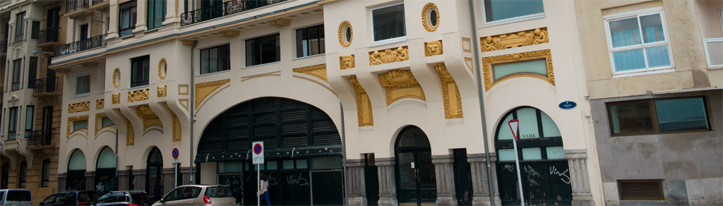 Principe theater